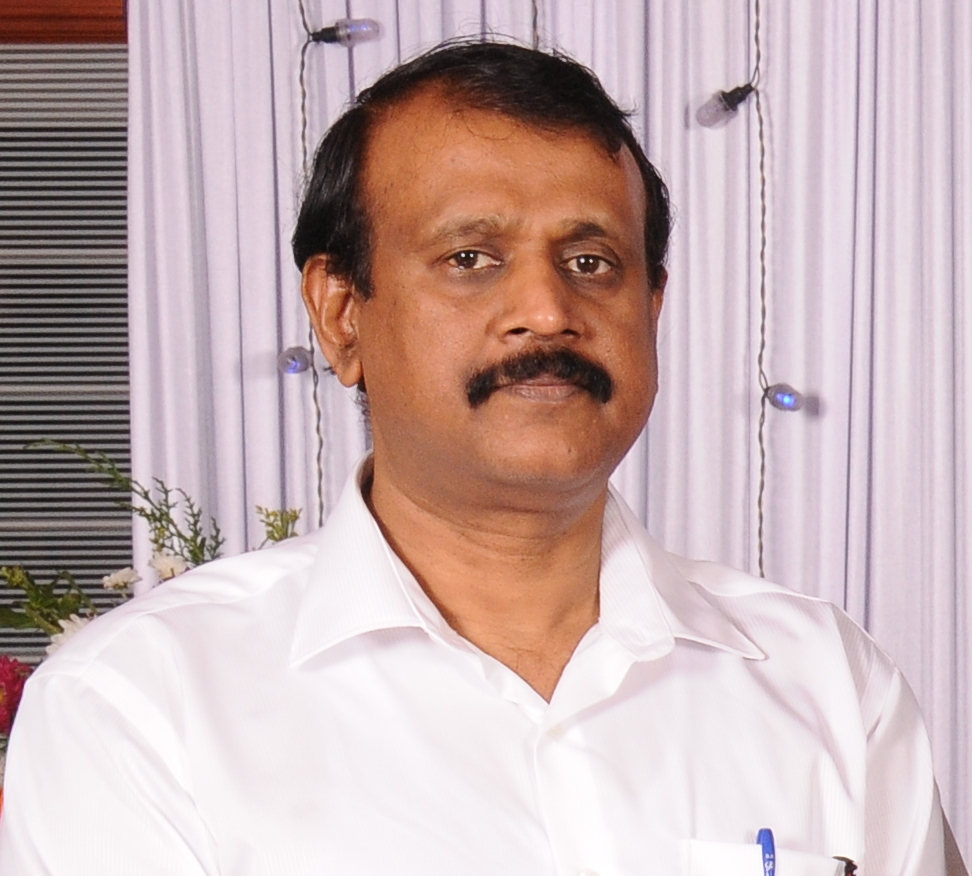 I took this photograph when i met him. my own work